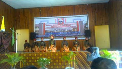 Belo Mesusun dance in the Faculty of Economics, Gunung Lauser University, Kutacane, Southeast Aceh Regency, Aceh, Indonesia.